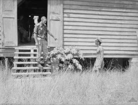 Australian War Memorial image 120420. Captain Jock McLaren (at left) indicating to Captain Leonard Gordon Darling his former sleeping place under a hut on Berhala Island, North Borneo when he was a prisoner of war in October 1945. McLaren was captured by the Japanese when Singapore surrendered but escaped from captivity in 1943. He spent the rest of the war with Philippino guerrillas and Australian special forces units.